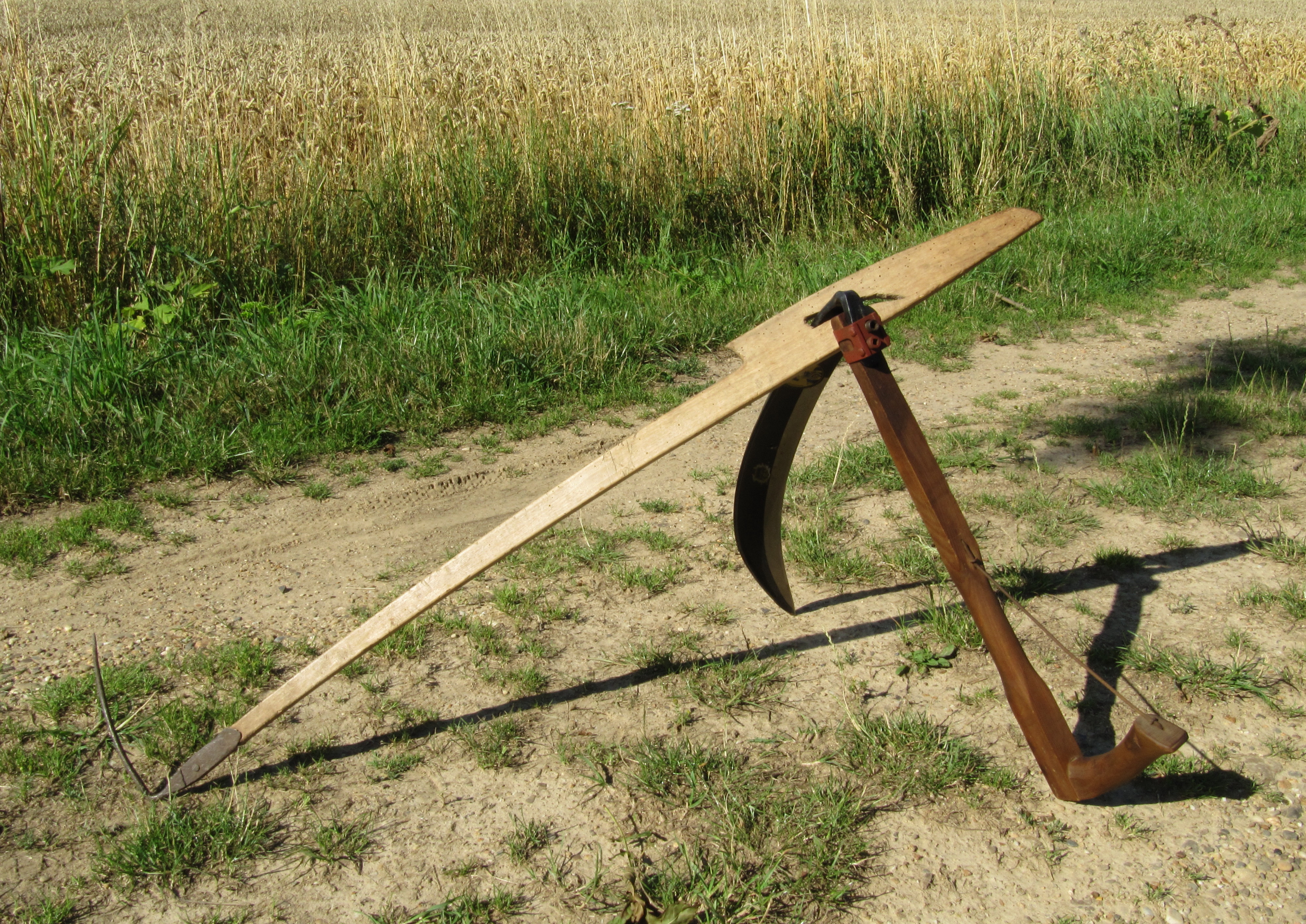 Sickle and Reaping Hook